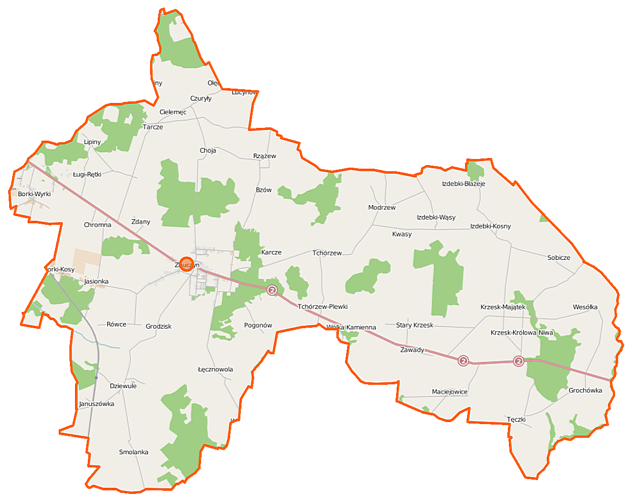 Map of Gmina Zbuczyn, Poland This map of Zbuczyn (gmina) was created from OpenStreetMap project data, collected by the community. This map may be incomplete, and may contain errors. Don't rely solely on it for navigation. Border coordinates52.177722.3338←↕→22.675152.0117